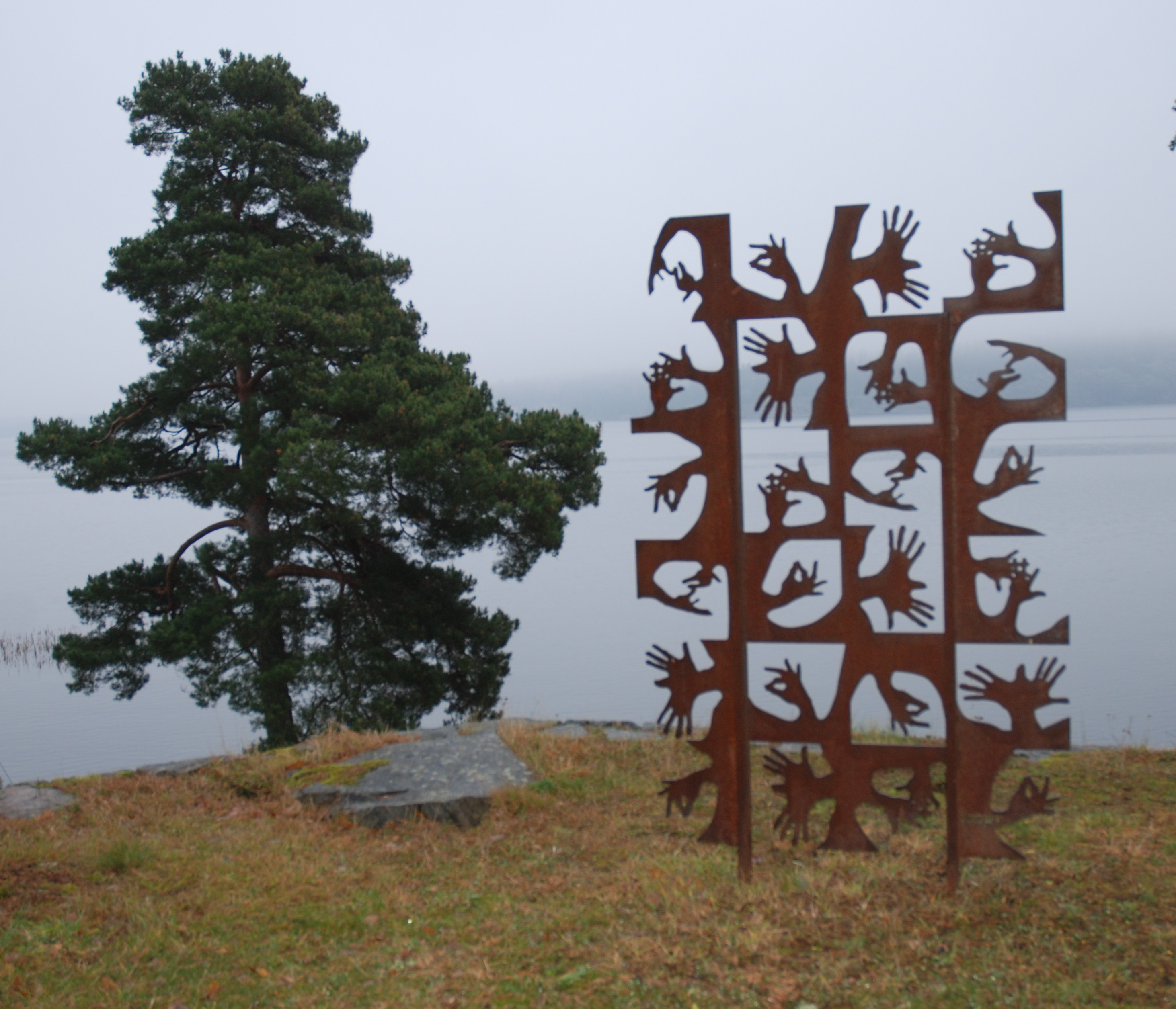 Karin Meijer´s Hands, Saltsjöbaden, Sweden